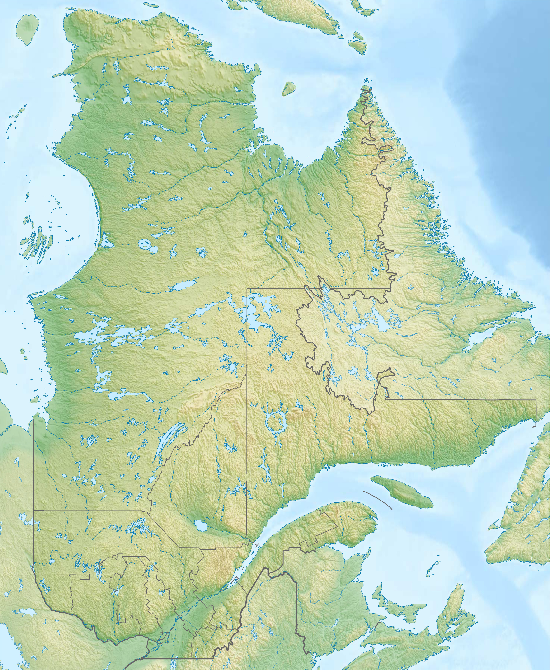 Physical location map of Quebec, Canada Equirectangular projection, N/S stretching 165 %. Geographic limits of the map: N: 62.8° N S: 44.7° N W: 81.0° W E: 56.5° W